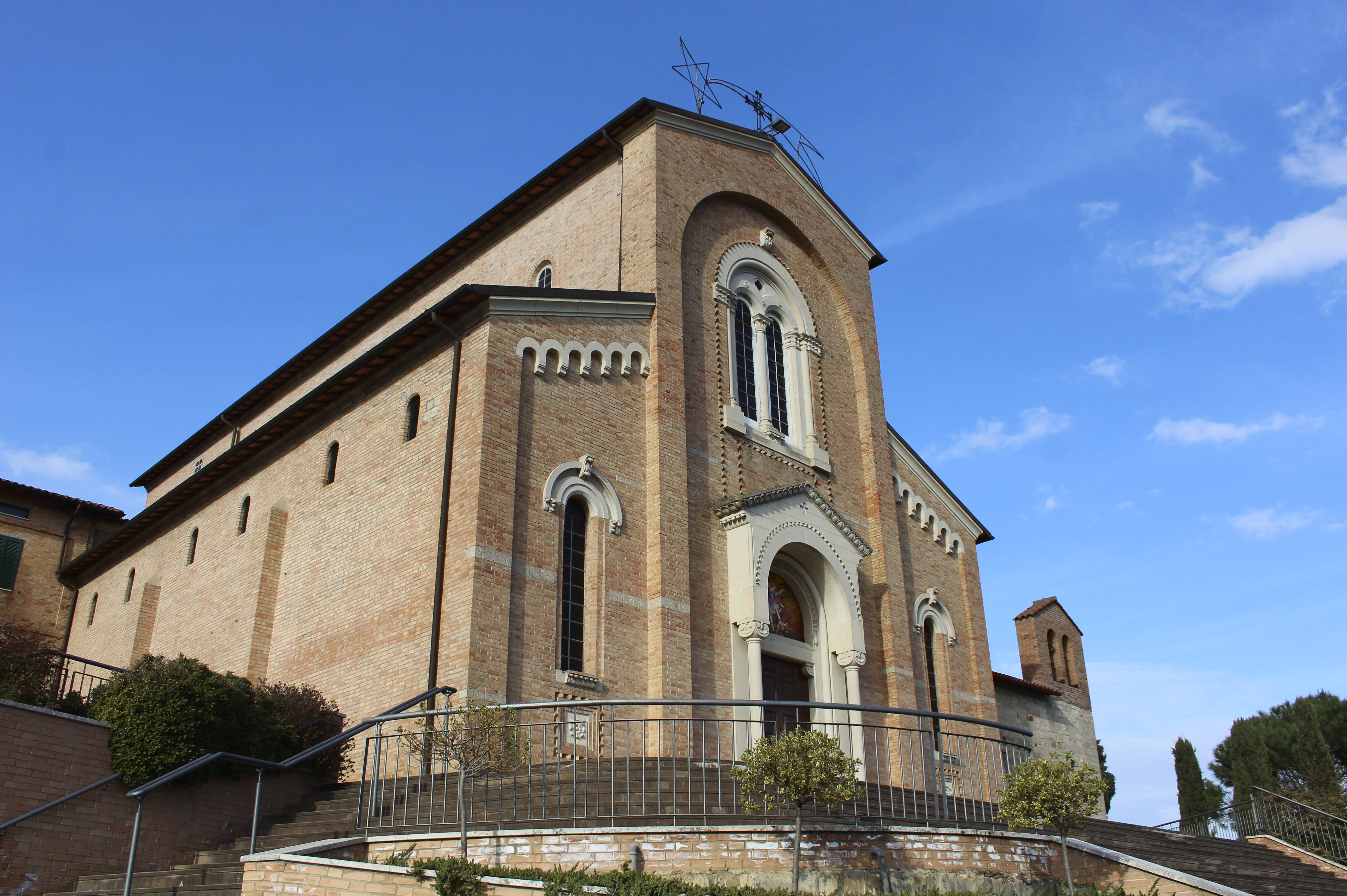 Church Santi Maria e Michele Arcangelo, Papiano, hamlet of Marsciano, Province of Perugia, Umbria, Italy